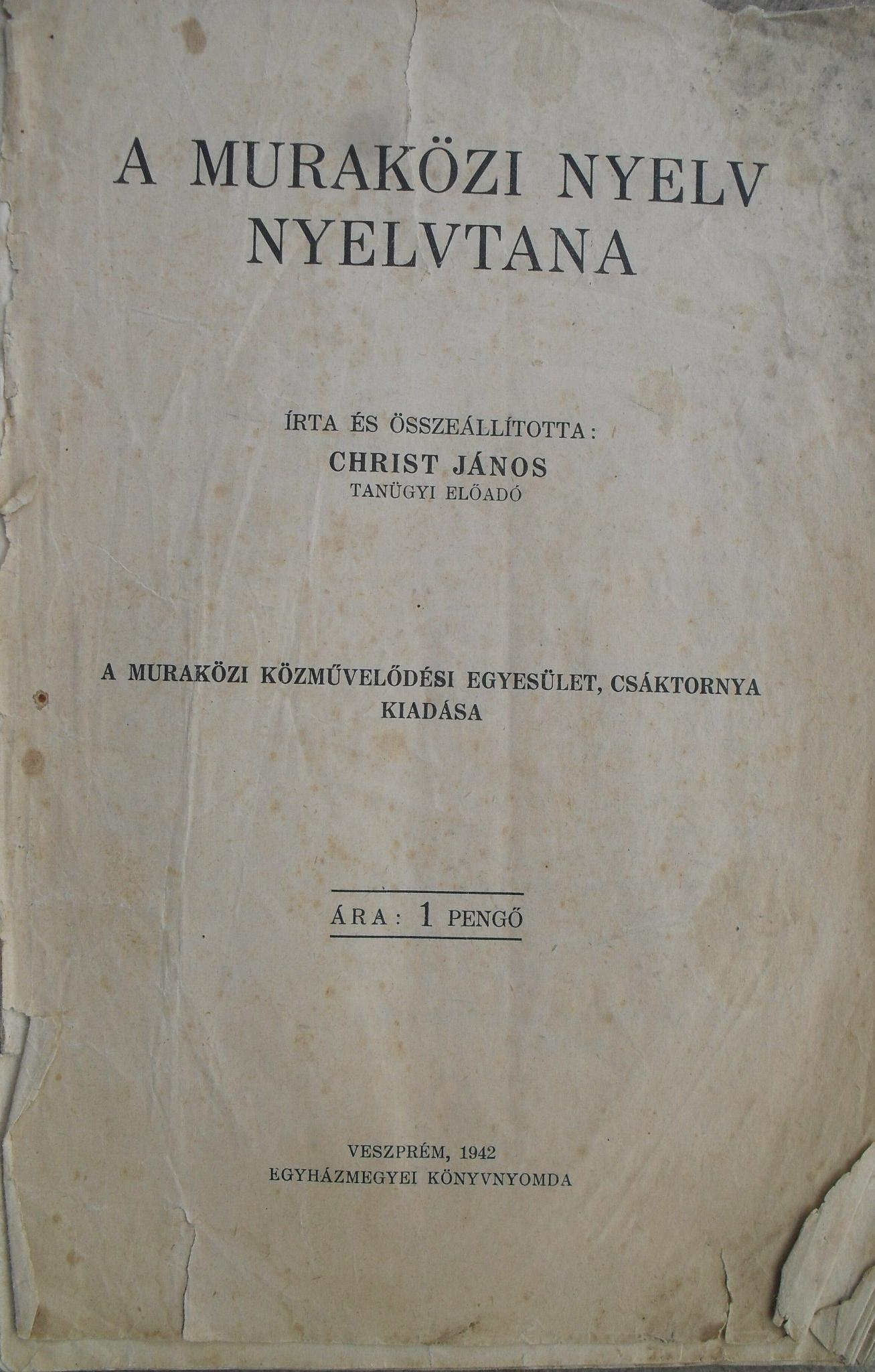 János Christ: Grammar of the Međimurian language (1942). Kajkavian grammar from the period of the Hungarian occupation in Međimurje (1941-1944)